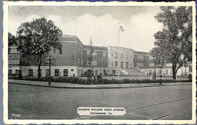 Description: No published or copyright date listed on postcard. Manufacturer: Owens B. Minor Drug Co. Inc. Richmond, Va. Date Postmarked: Not postmarked. Rights: This item is in the public domain. Acknowledgement of the Virginia Commonwealth University Libraries as a source is requested. Reference URL: Collection